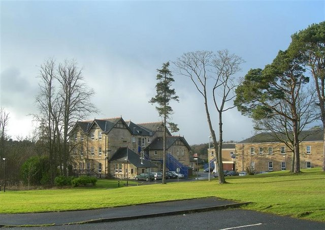 Ailsa Hospital This is a psychiatric hospital near Ayr.